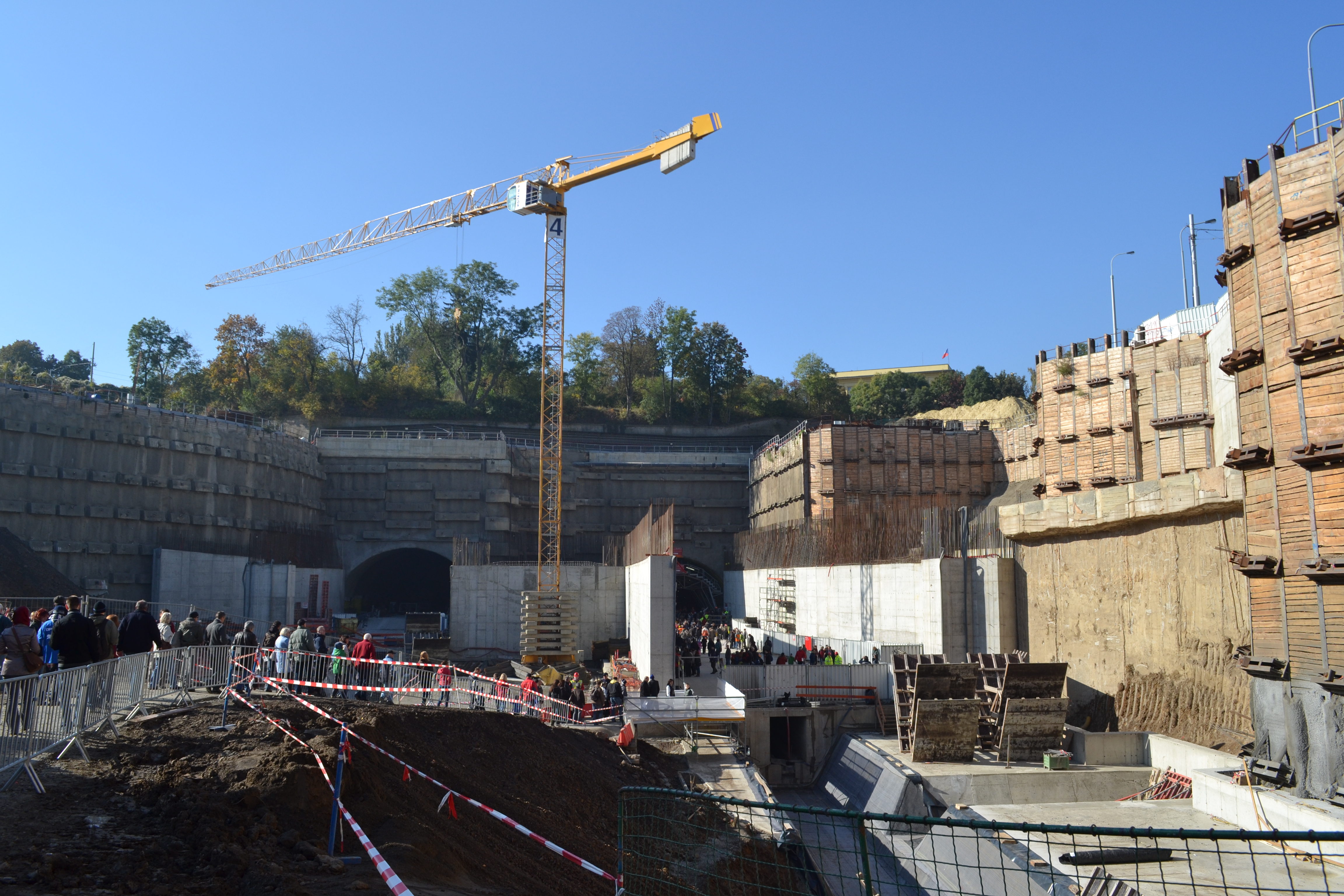 Construction of tunnel Blanka in Prague.